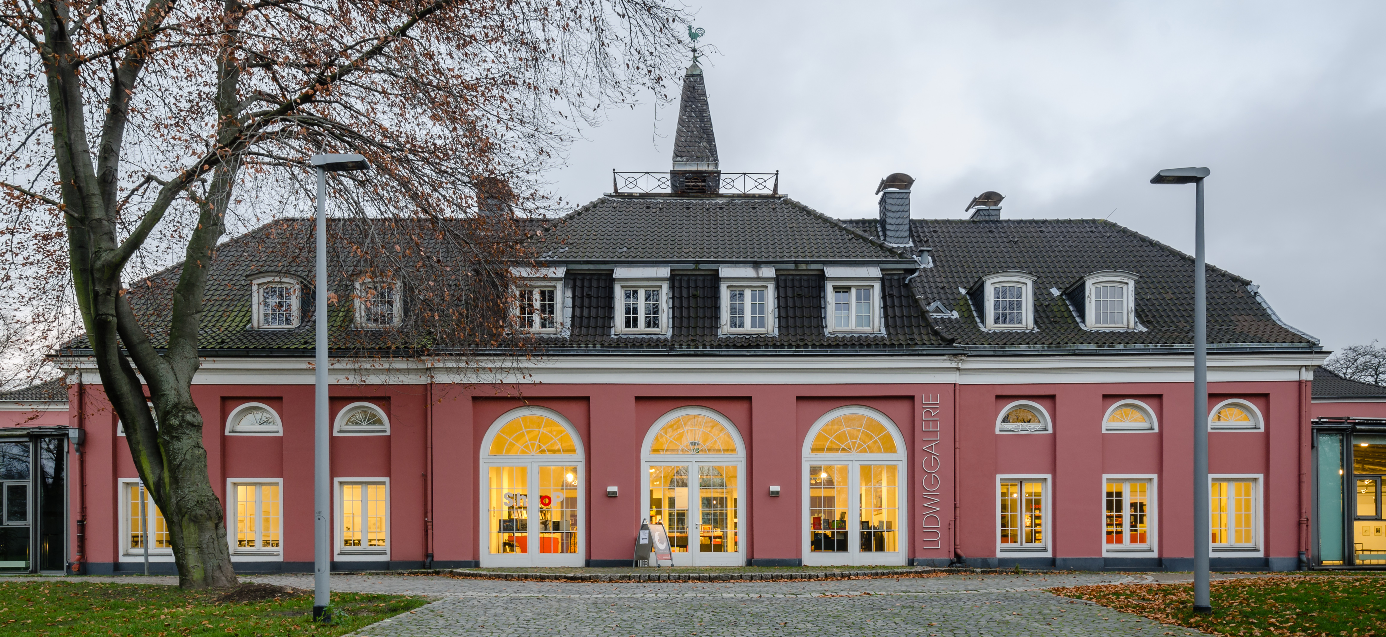 Oberhausen Castle, back view